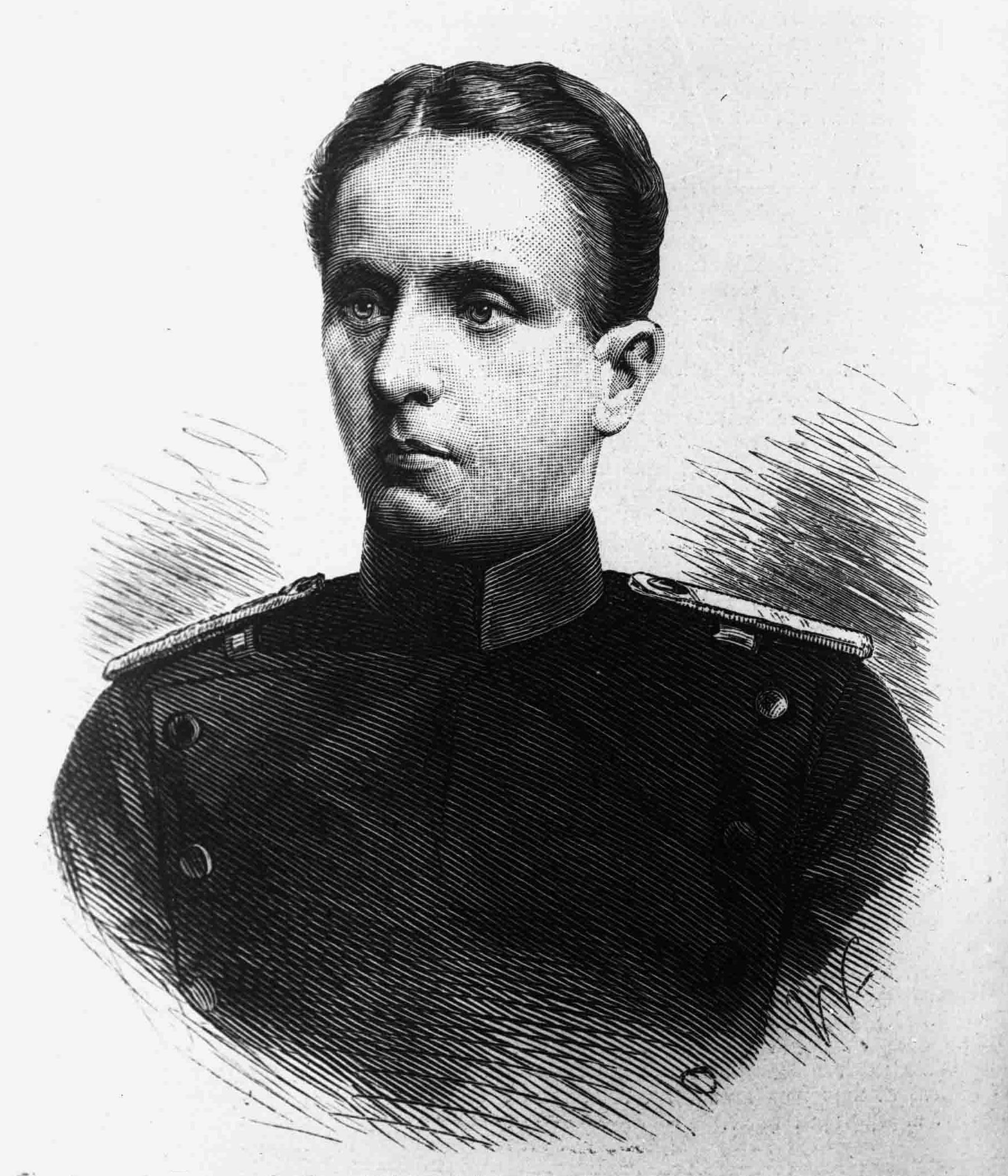 Hans Tappenbeck as a lieutenant, 1888.